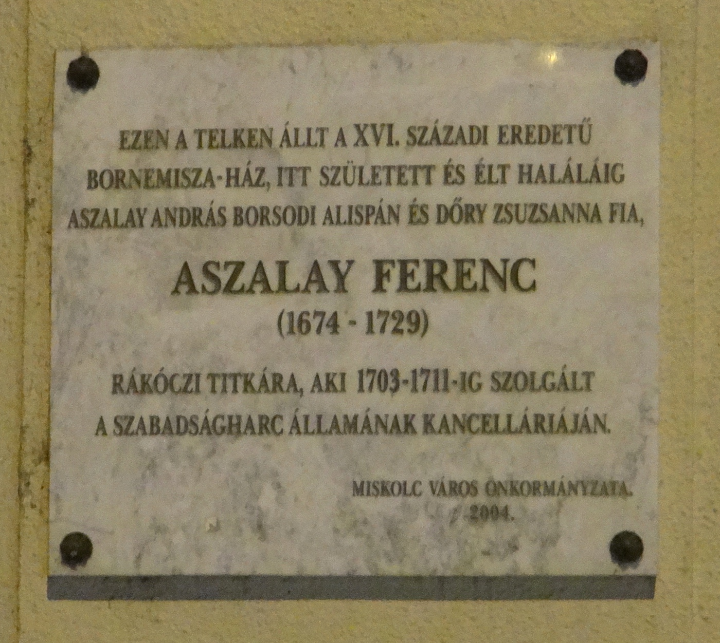 10 Szechenyi Street, Miskolc, Hungary